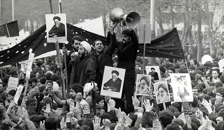 Tehran Ashura Demonstration, 11 December 1978